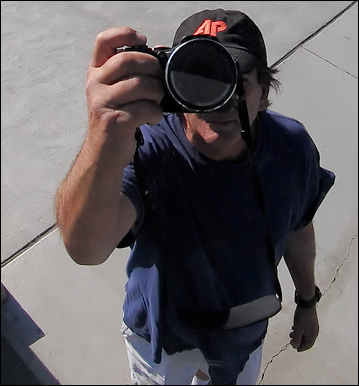 picture of Derek taking picture of himself